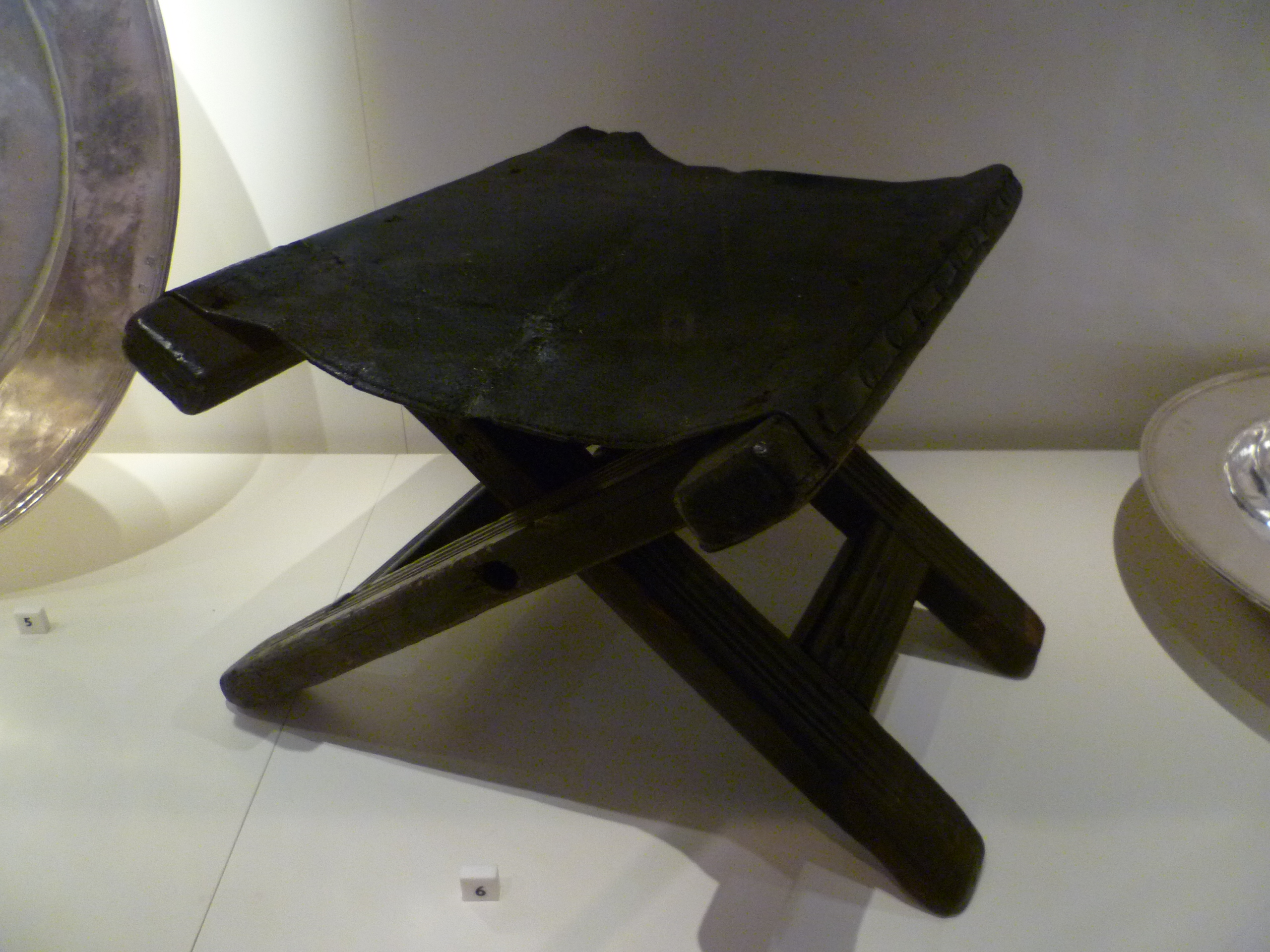 A 17th-century folding stool of the type thrown at the head of Dean Hannay during the St. Giles riot of 1637, reputedly by a market-woman named Jenny Geddes. An exhibit in the National Museum of Scotland